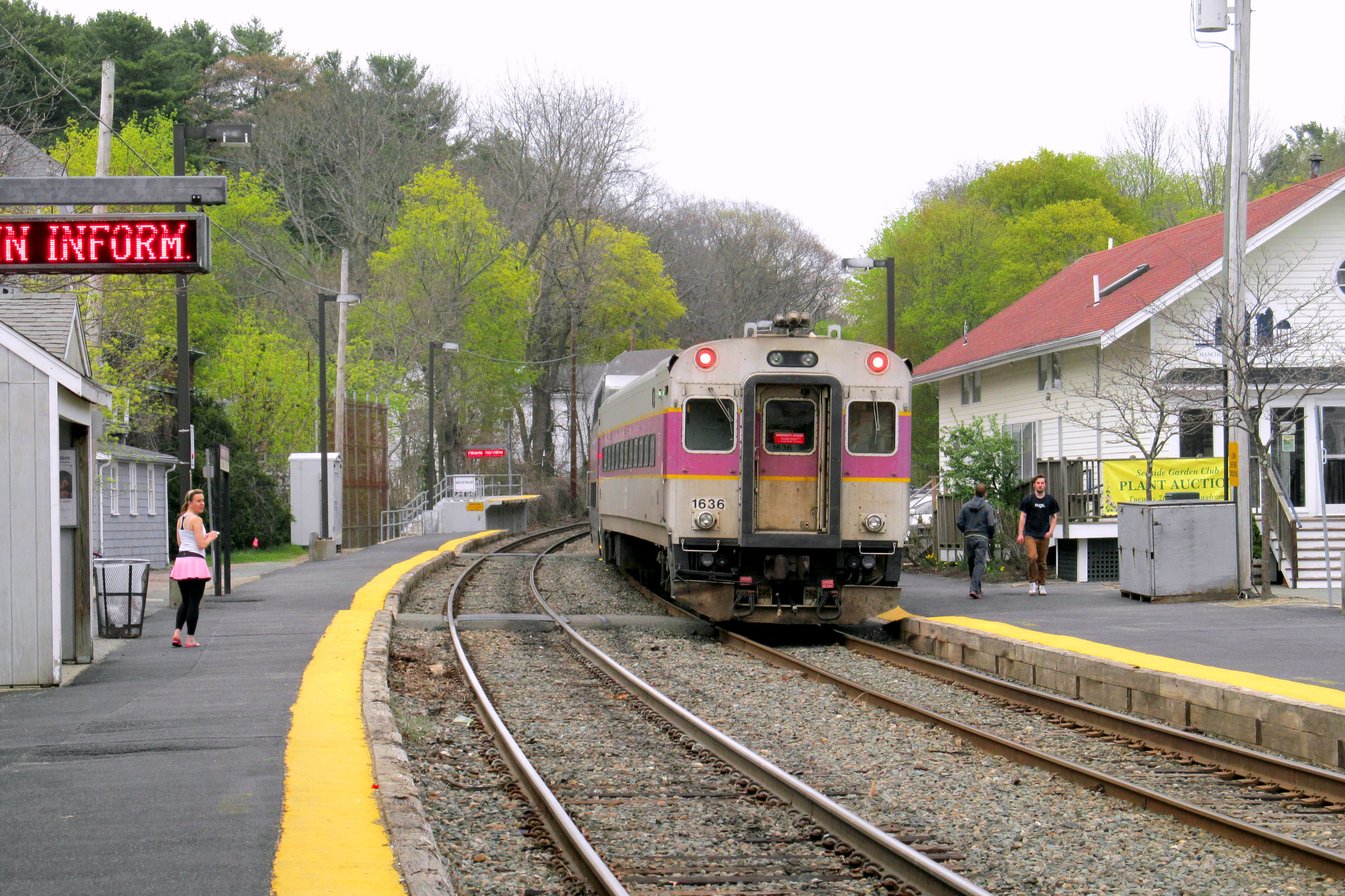 MBTA 1636 tails an outbound train at Manchester station in May 2014